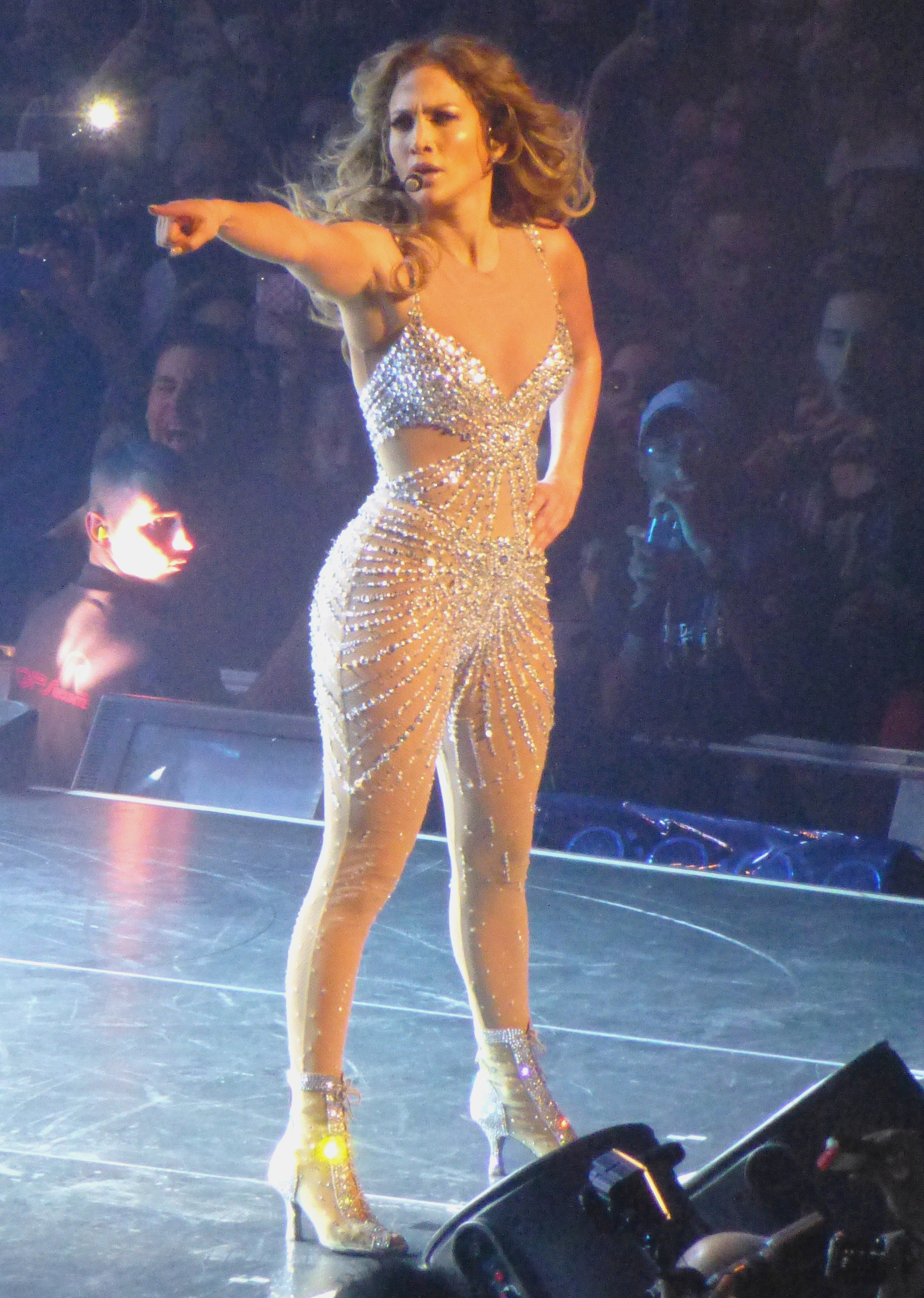 Jennifer Lopez in concert at Paris Bercy in the "Dance Again World Tour" in October 2012.